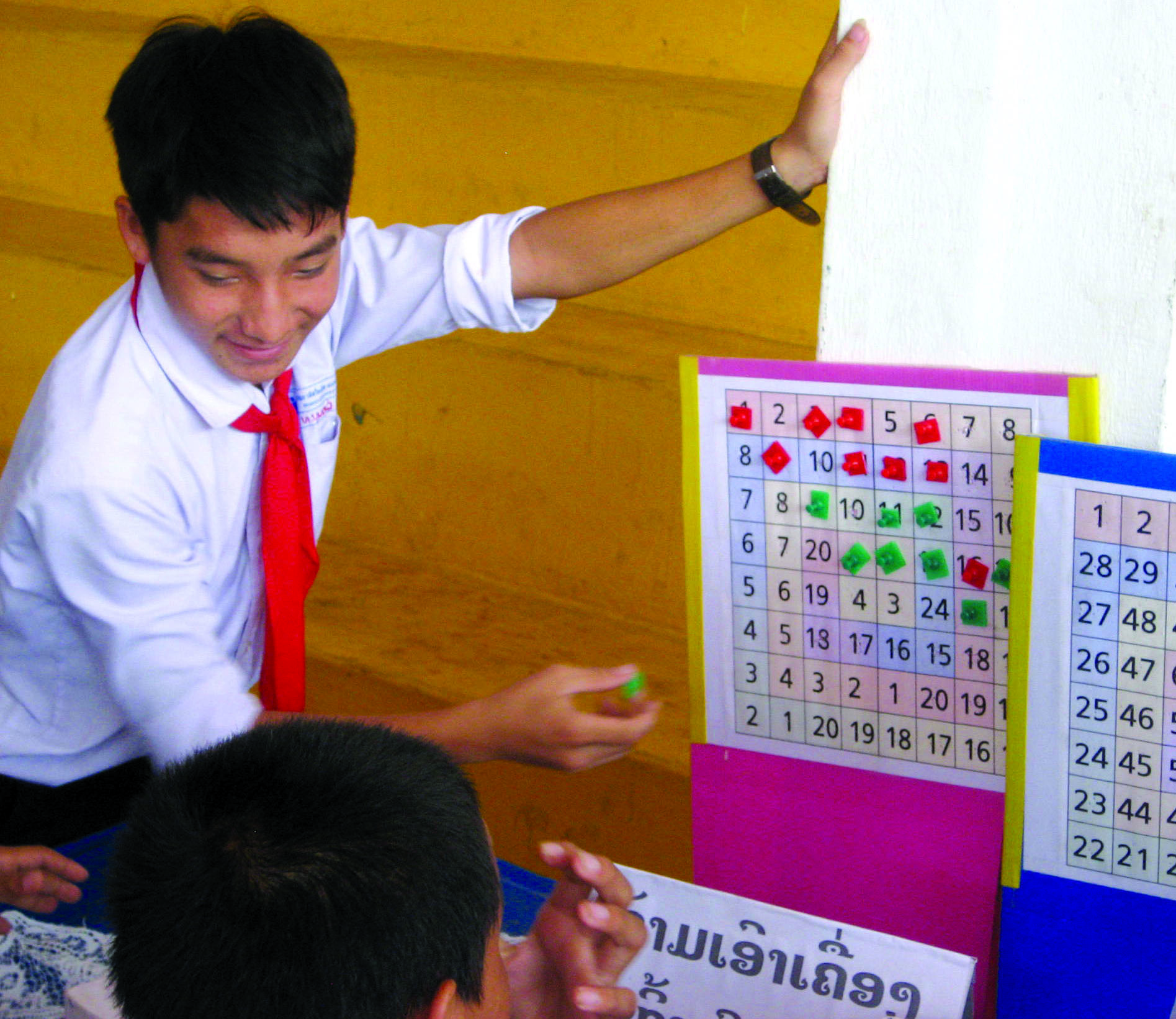 Numeracy, or number literacy, consists of many related skills. One important component is the ability to perform simple arithmetic operations almost automatically, thus freeing the brain to work on a higher level. Here, a high school student in Laos leads younger students in a game called Number Bingo. They roll 3 dice, and combine the numbers with basic math symbols (plus and minus; other operations can be added for older students) to make a number. They cover that number on the board. The first team to get four in a row is the winner. Students improve their math skills while having fun. They also learn strategic thinking: “Is it better on this move to make three in a row for our team, or to block the opponent, who is just one number from victory?” This game was played at "Discovery Day," a day of hands-on activities organized by Big Brother Mouse, a literacy organization in Laos. Students also attended read-aloud sessions, conducted simple science experiments, examined minerals and fossils, and looked through a solar telescope.